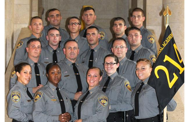 Graduating class of Marshals